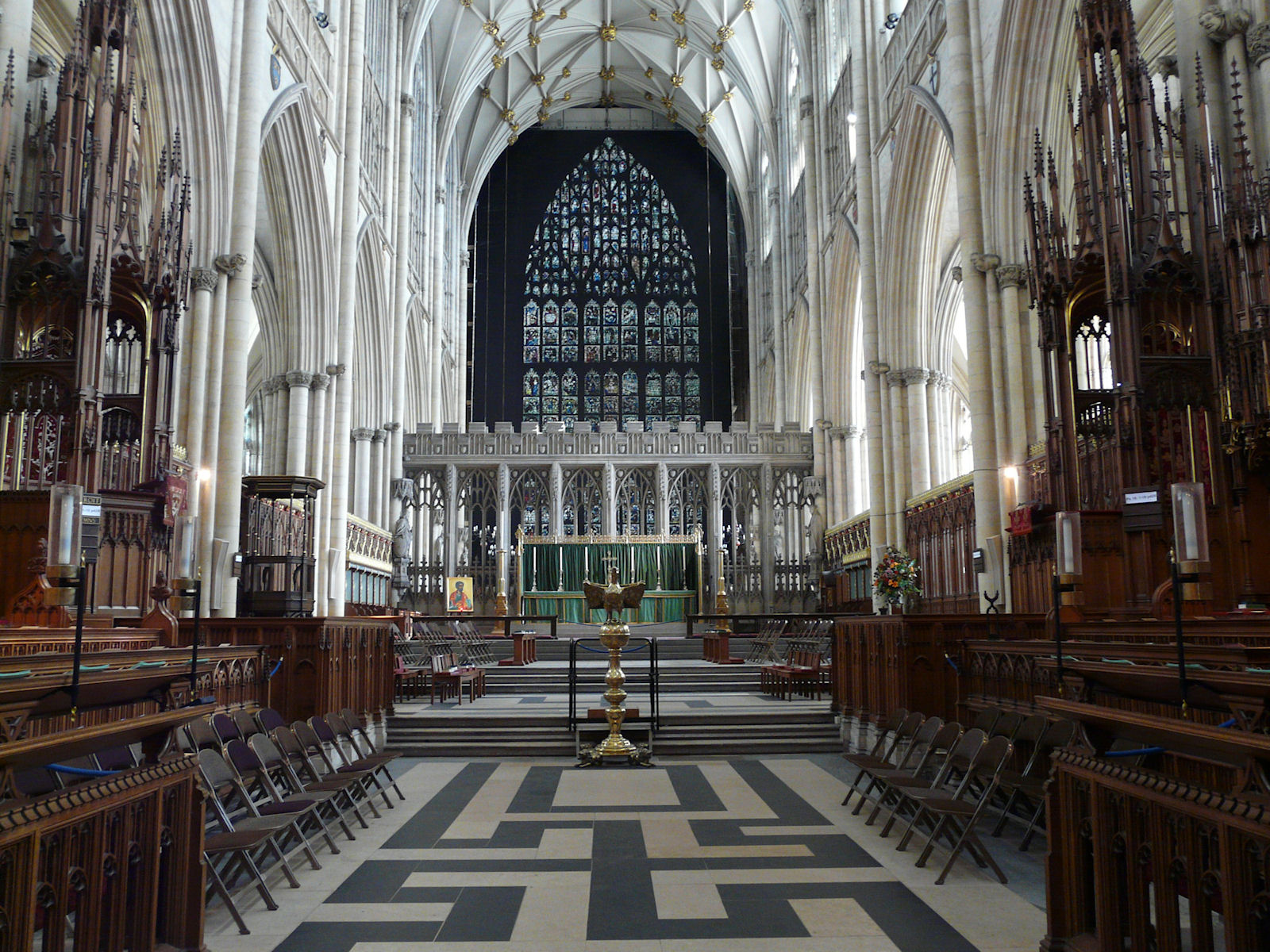 Toward the East End from within the choir area in York Minster, York, England